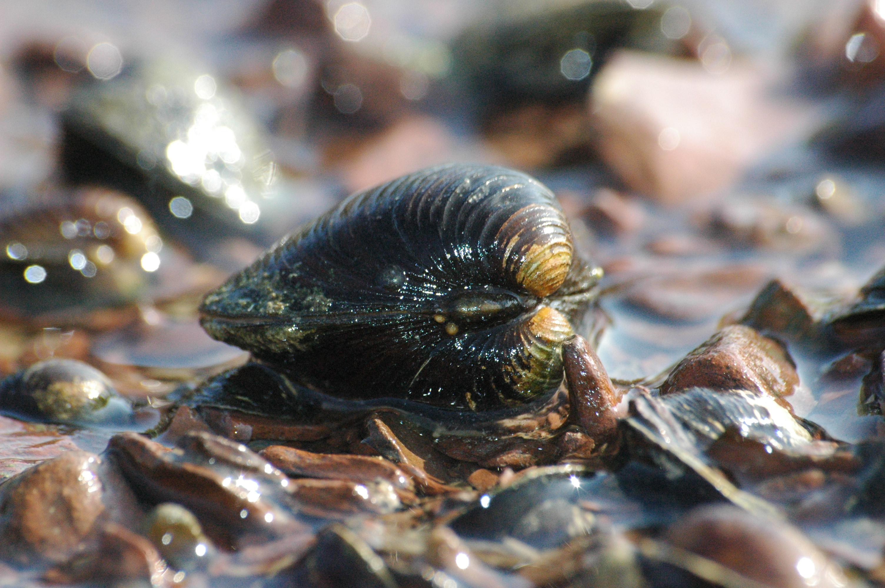 Shell, Rhine, 55299 Nackenheim, Germany